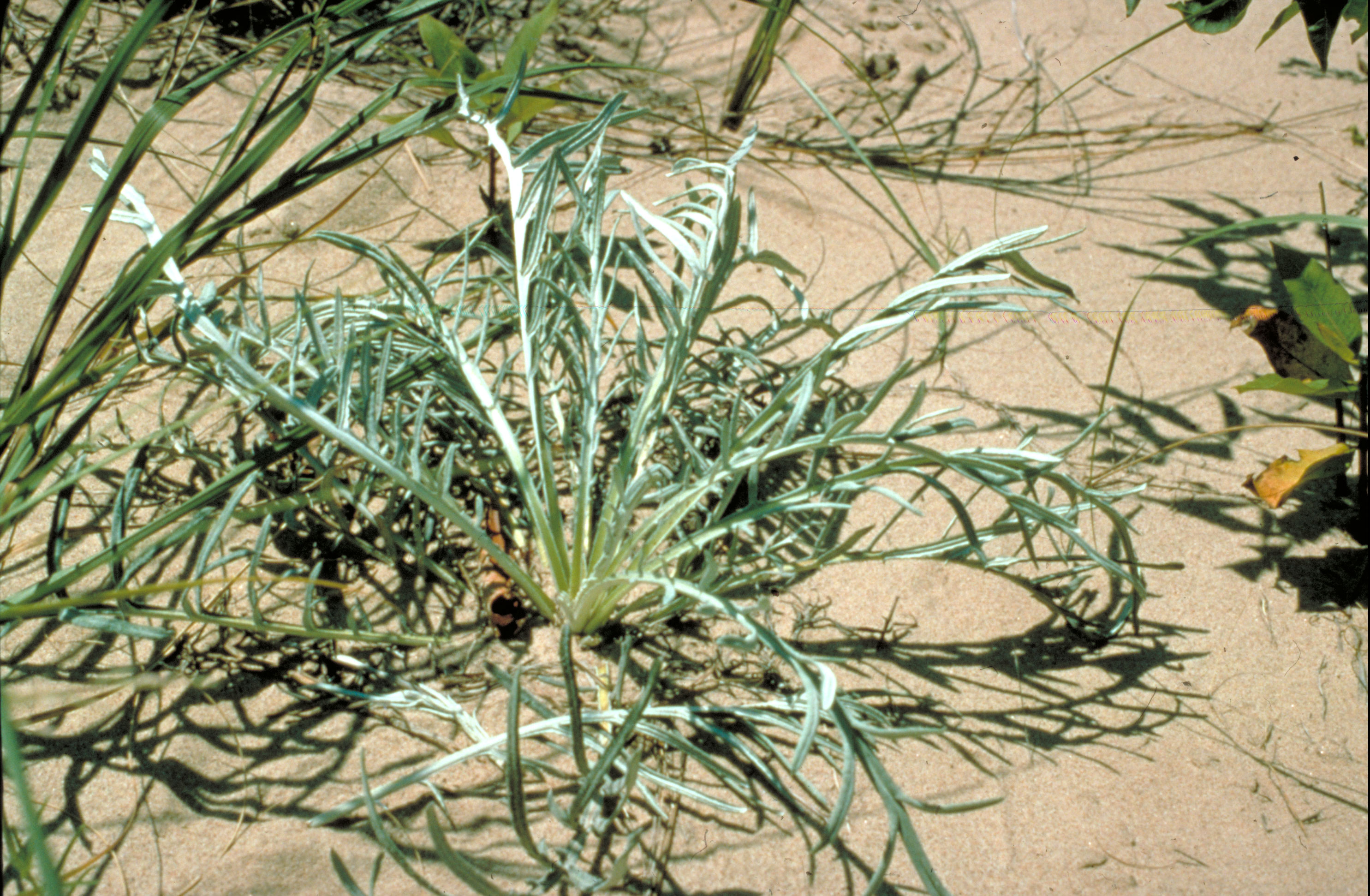 Cirsium pitcheri Pitcher's Thistle (endangered), Warren Dunes Michigan. USDA Natural Resources Conservation Service, Romy Myszka